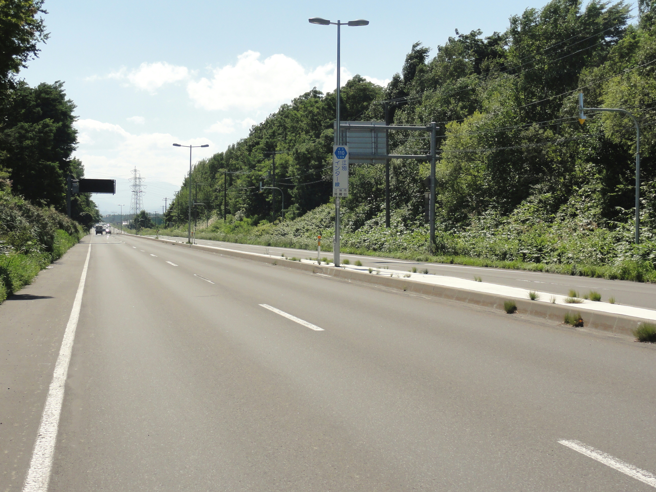 Hokkaido Pref Route 110 (Ebetsu, Hokkaidō)